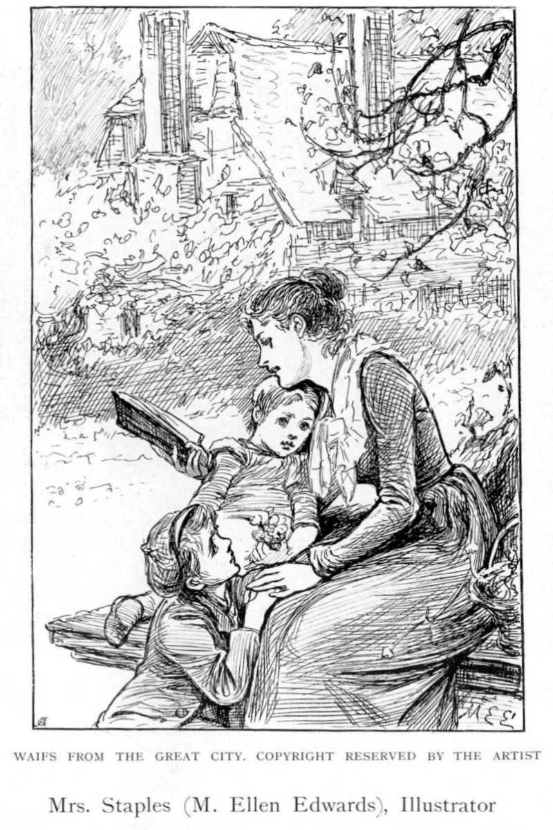 1905 print after page of Women painters of the world, from the time of Caterina Vigri, 1413-1463, to Rosa Bonheur and the present day, by Walter Shaw Sparrow, The Art and Life Library, Hodder & Stoughton, 27 Paternoster Row, London